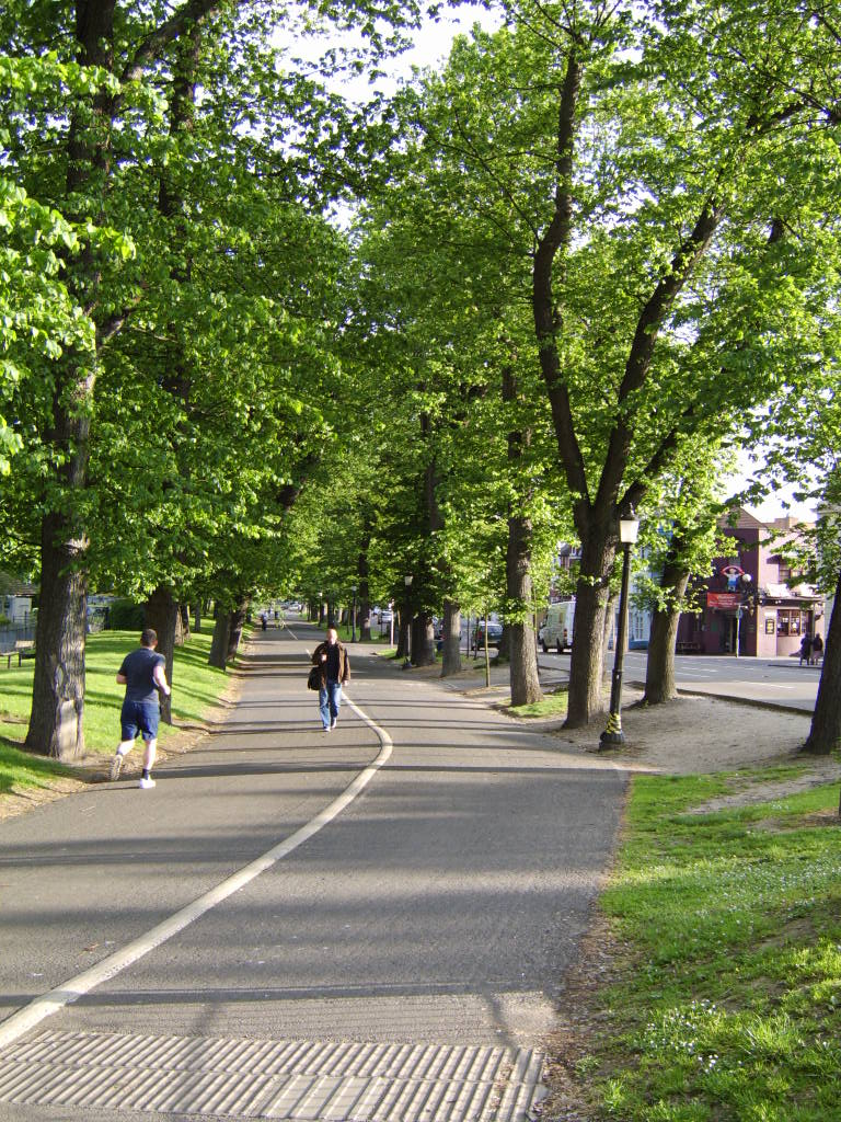 The Level, Brighton, showing Dutch elms in a double avenue. Planted 1844. I (Peter Bourne) am the author. The picture is part of my collection.